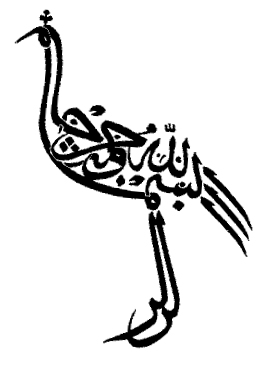 Example of zoomorphic arabic calligraphy.